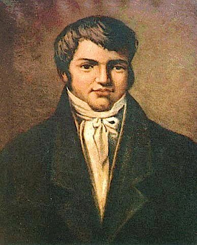 This is a portrait image of the young Fra Diavolo, it was painted during the time of his early adult years. Since the man died in 1806, this image has long been in the public domain as per the attached license on Italian copyright laws. Source: [1]